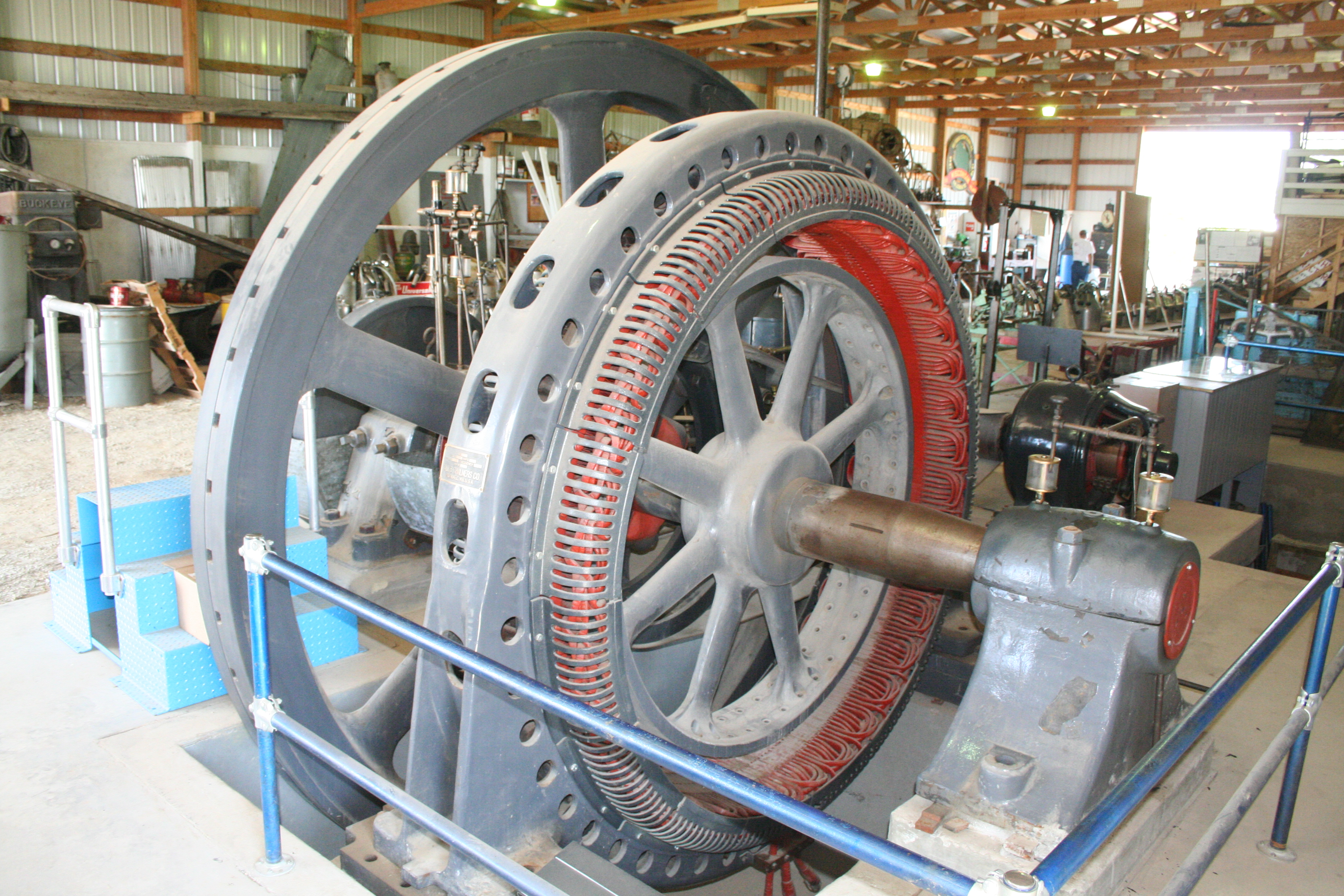 A 240 volt, 480 amp, 3 phase, 150 rpm (according to name plate data) Allis-Chalmers electric generator on display at the 2008 Dodge County Antique Power Show.